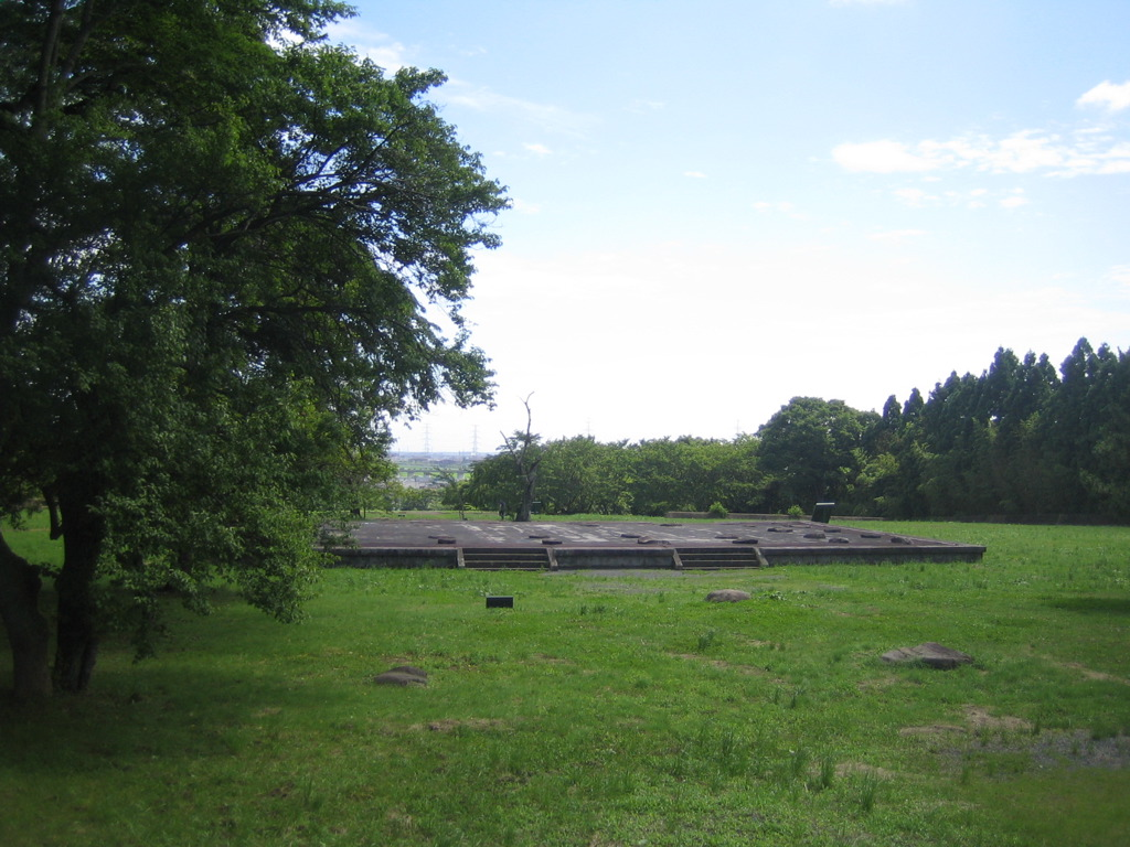 Site of Tagajō Provincial Office (Remains of the Government Office) in Tagajō-shi, Miyagi.